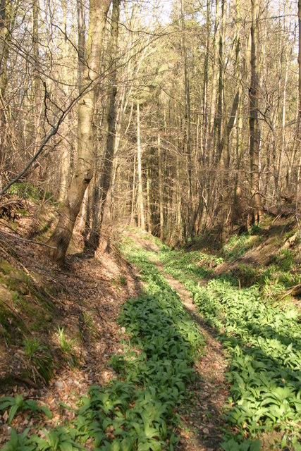 Devil's Causeway The track of the Roman road on the south side of the ford across the Hart Burn.